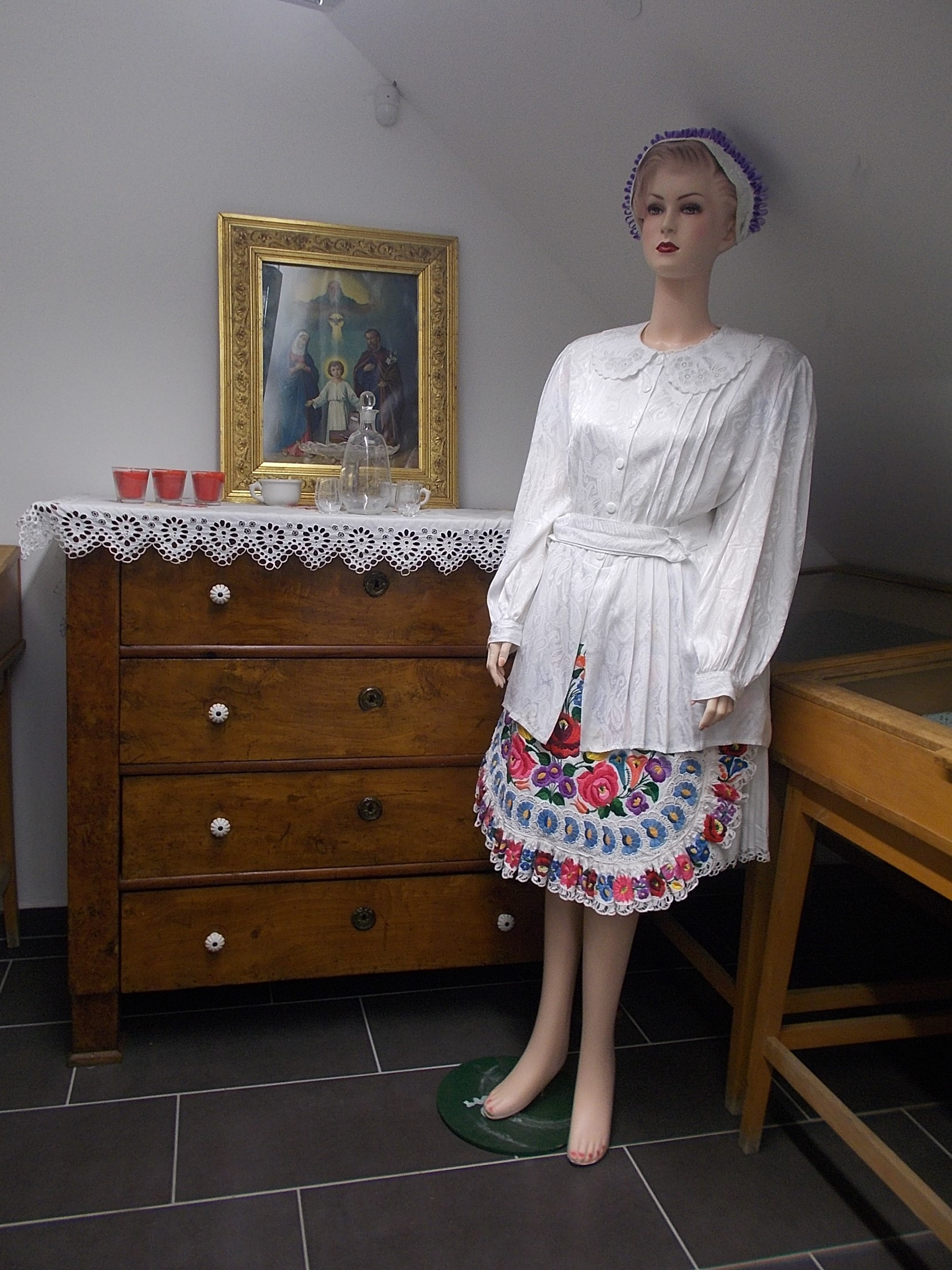 Archbishop's Garden, reception building, Kalocsa Tradition Conservation Association, Kalocsa and Kalocsa District folk art and old household objects. Exhibition space. - Kalocsa, Bács-Kiskun County.